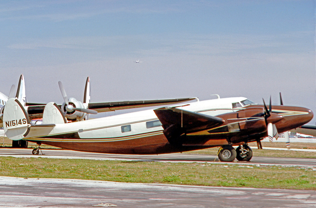 Lockheed PV-1 Ventura N1514S converted to Howard 350 executive standard. Fort Lauderdale FL in 1978.